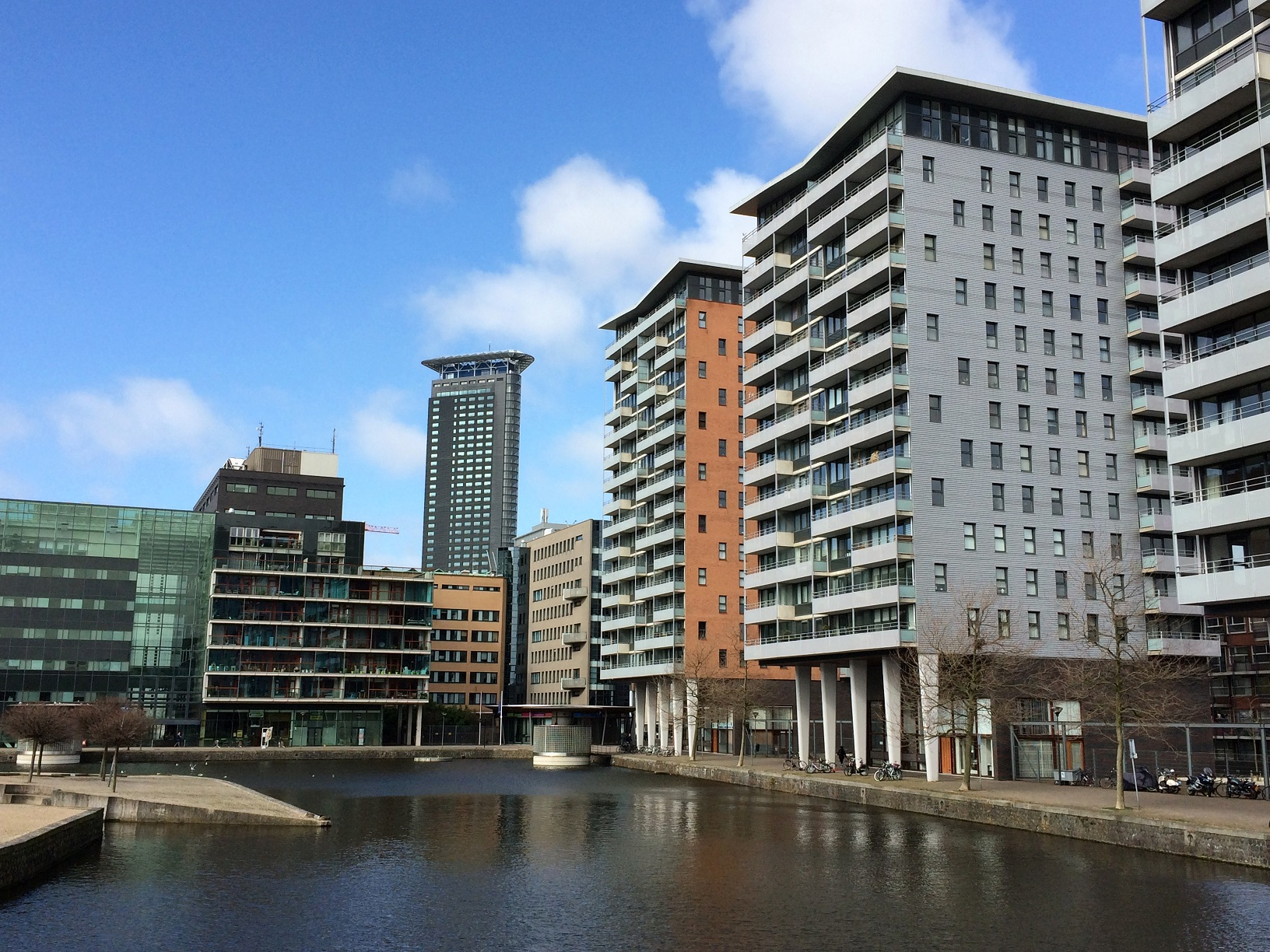 The Laak Harbour, the Leeghwaterkade (on the left), the Fijnjekade (on the right), and the so-called Strijkijzer (the skyscraper in the background); all in The Hague, Netherlands.